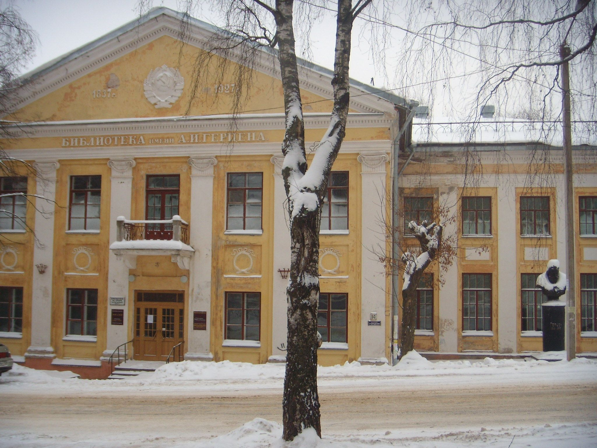 Photo the main entrance of the Library of Herzen. Kirov, Russia.